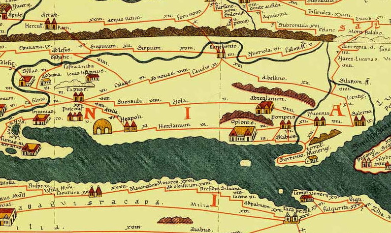 Crop of the Pompei's area from the Tabula Peutingeriana, 1-4th century CE. Facsimile edition by Conradi Millieri, 1887/1888